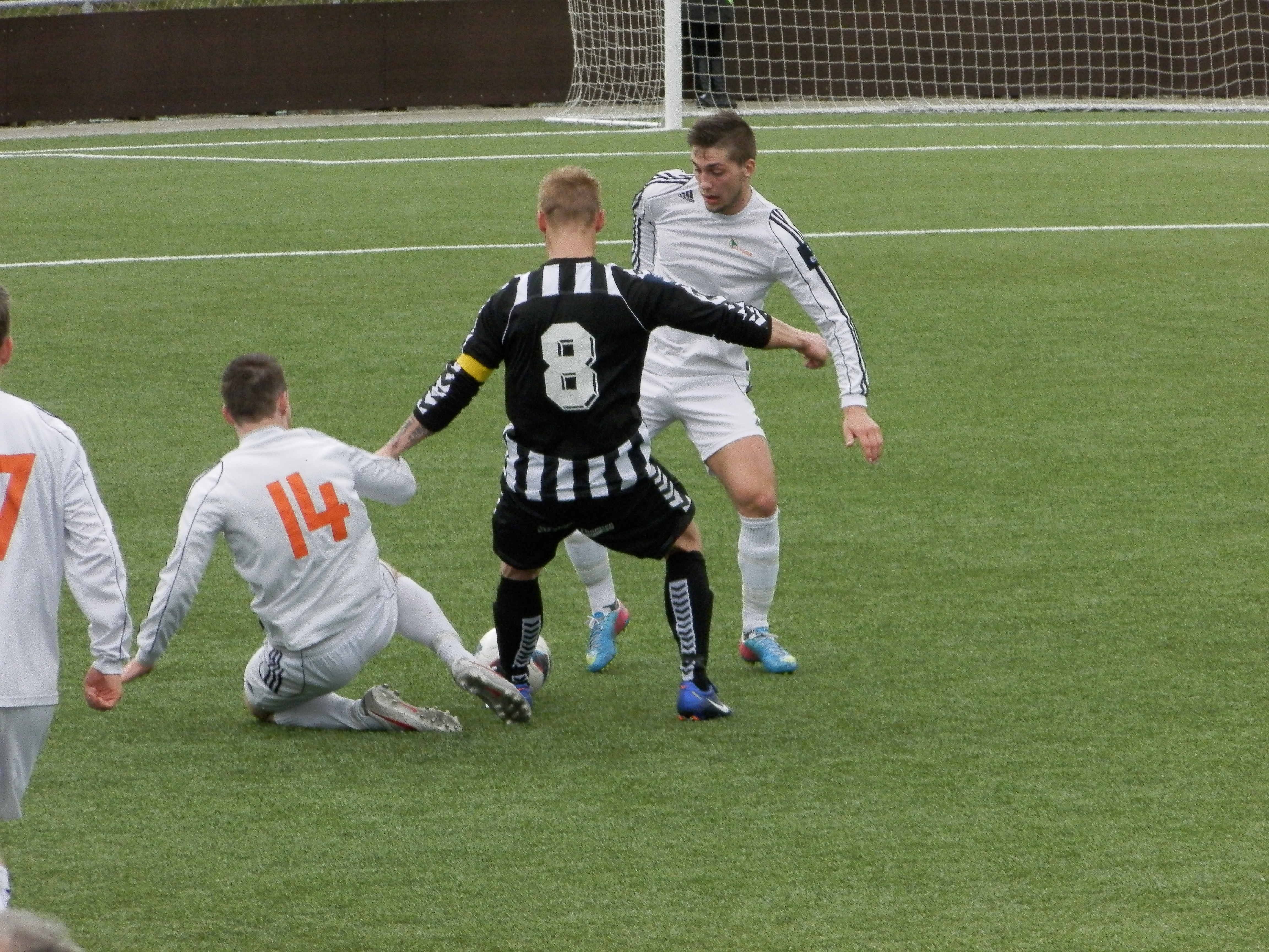 Football (soccer) match in the men's best division of the Faroe Islands, which currently (2013) is called Effodeildin. The match was between TB Tvøroyri, which is the oldest football club of the Faroes, and 07Vestur from the island Vágar, which is one of the youngest clubs. TB Tvøroyri won this match 2-0. The match was played Við Stórá in Trongisvágur on TB's home field.